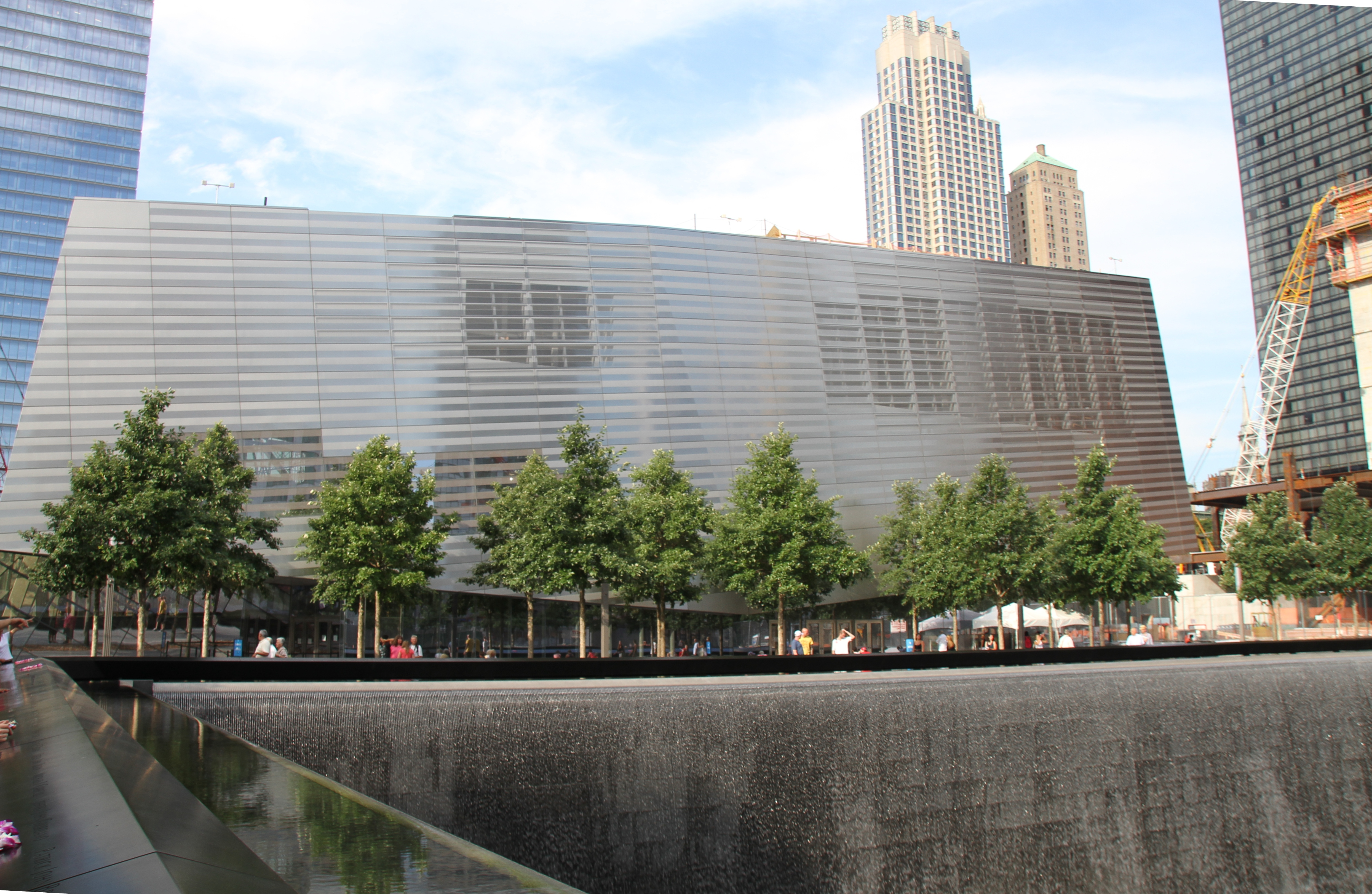 Ground Zero Memorial District of lower west side Manhattan, New York City